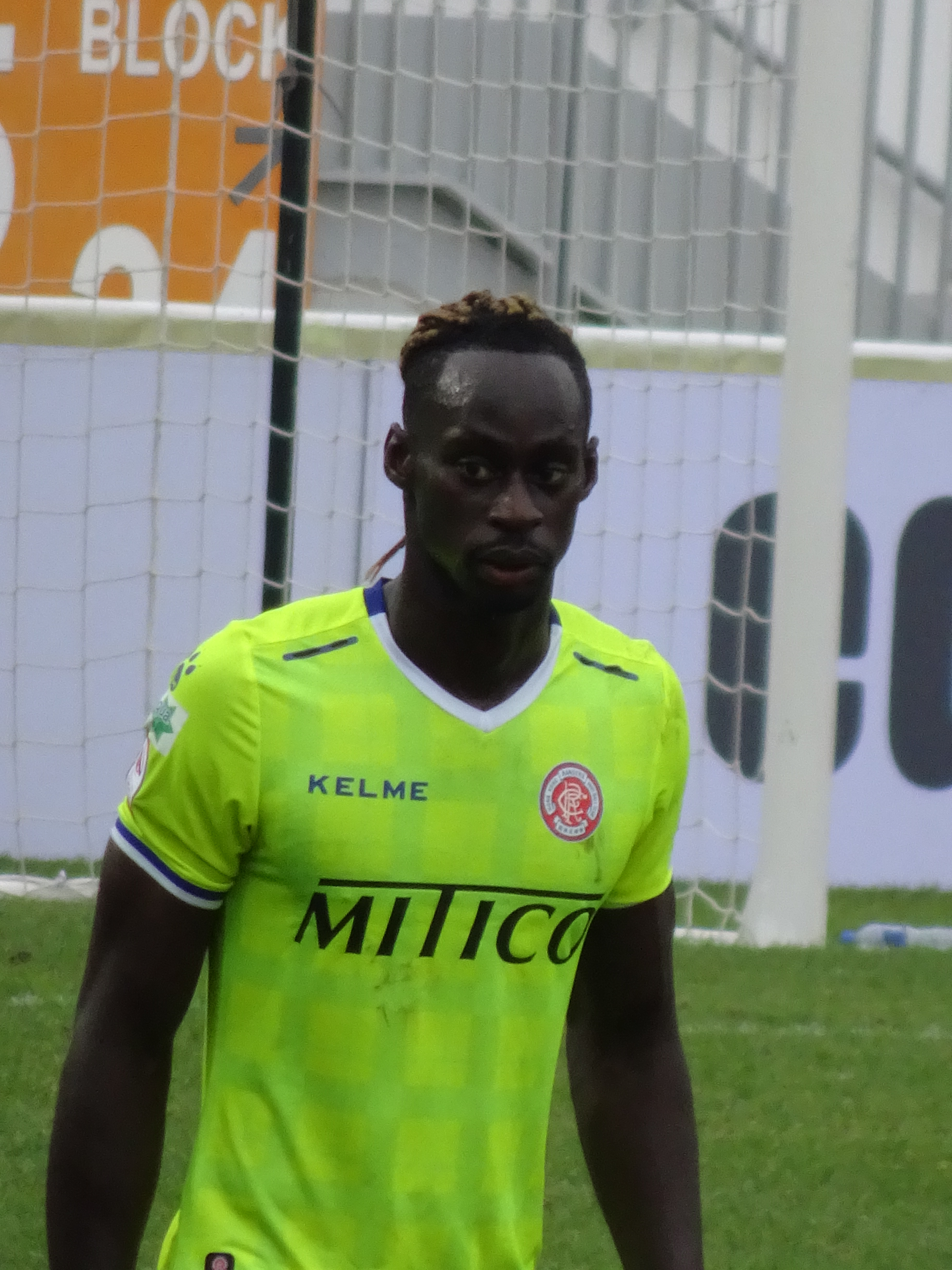 Walter Vaz (28 Jan 2018, Hong Kong Premier League, Kitchee vs Rangers, Mongkok Stadium)